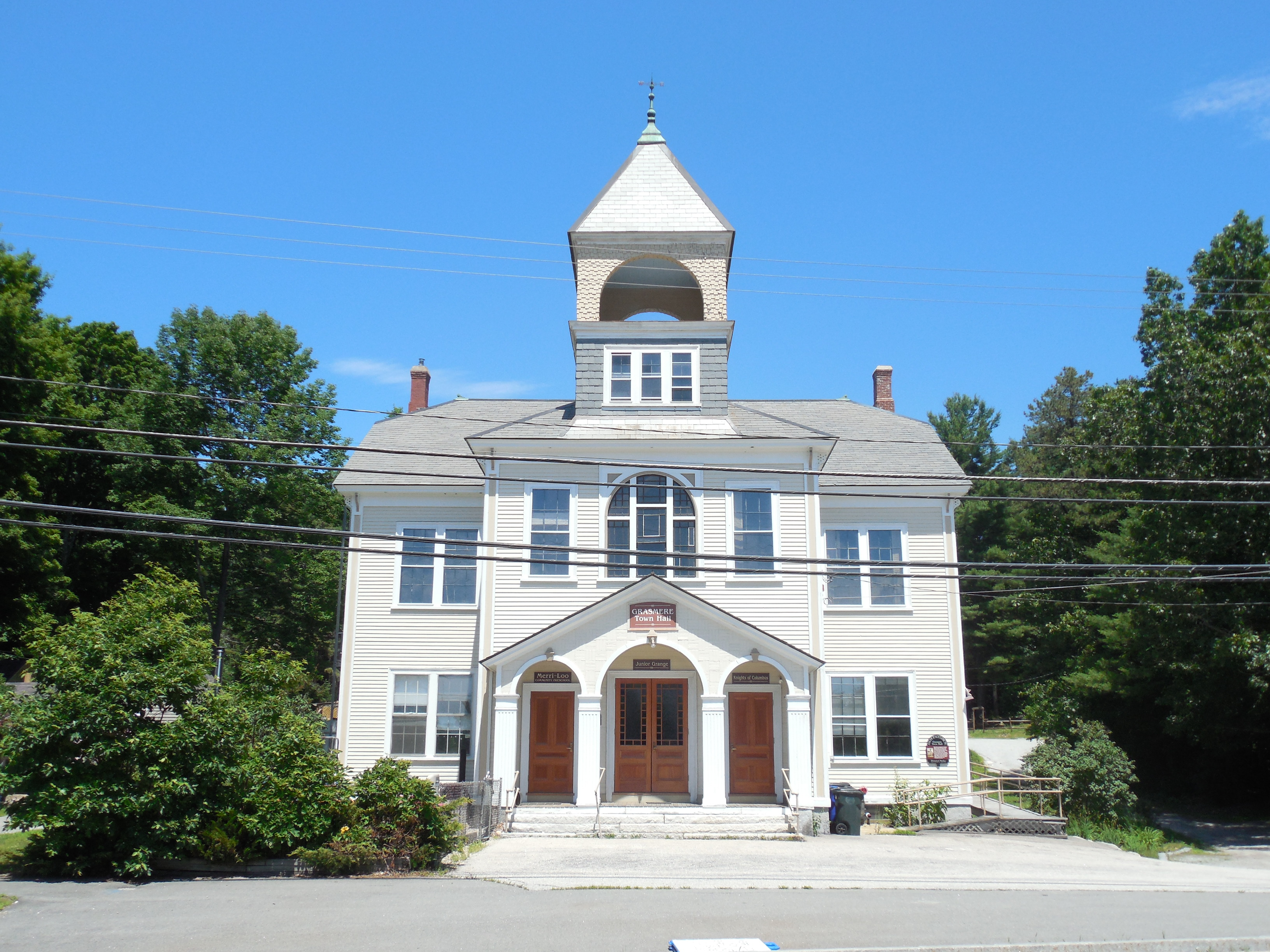 Town Hall, Grasmere New Hampshire